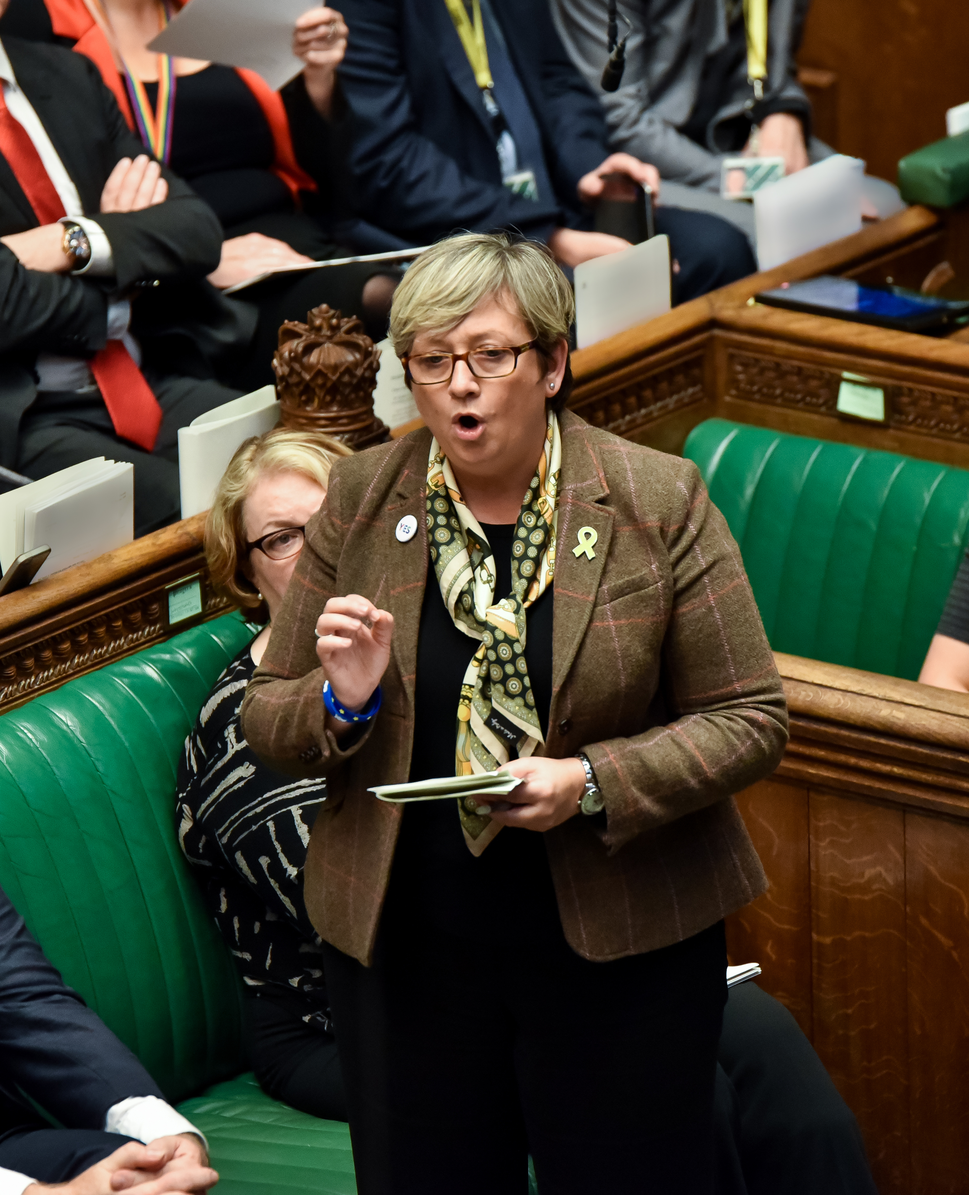 Joanna Cherry in the House of Commons, debating the renegotiated Brexit deal on Saturday 19th October 2019.